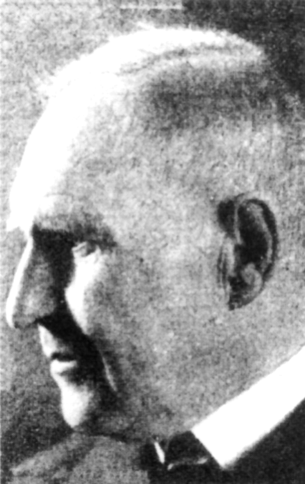 Carl Menge (1865–1945), German gynaecologist